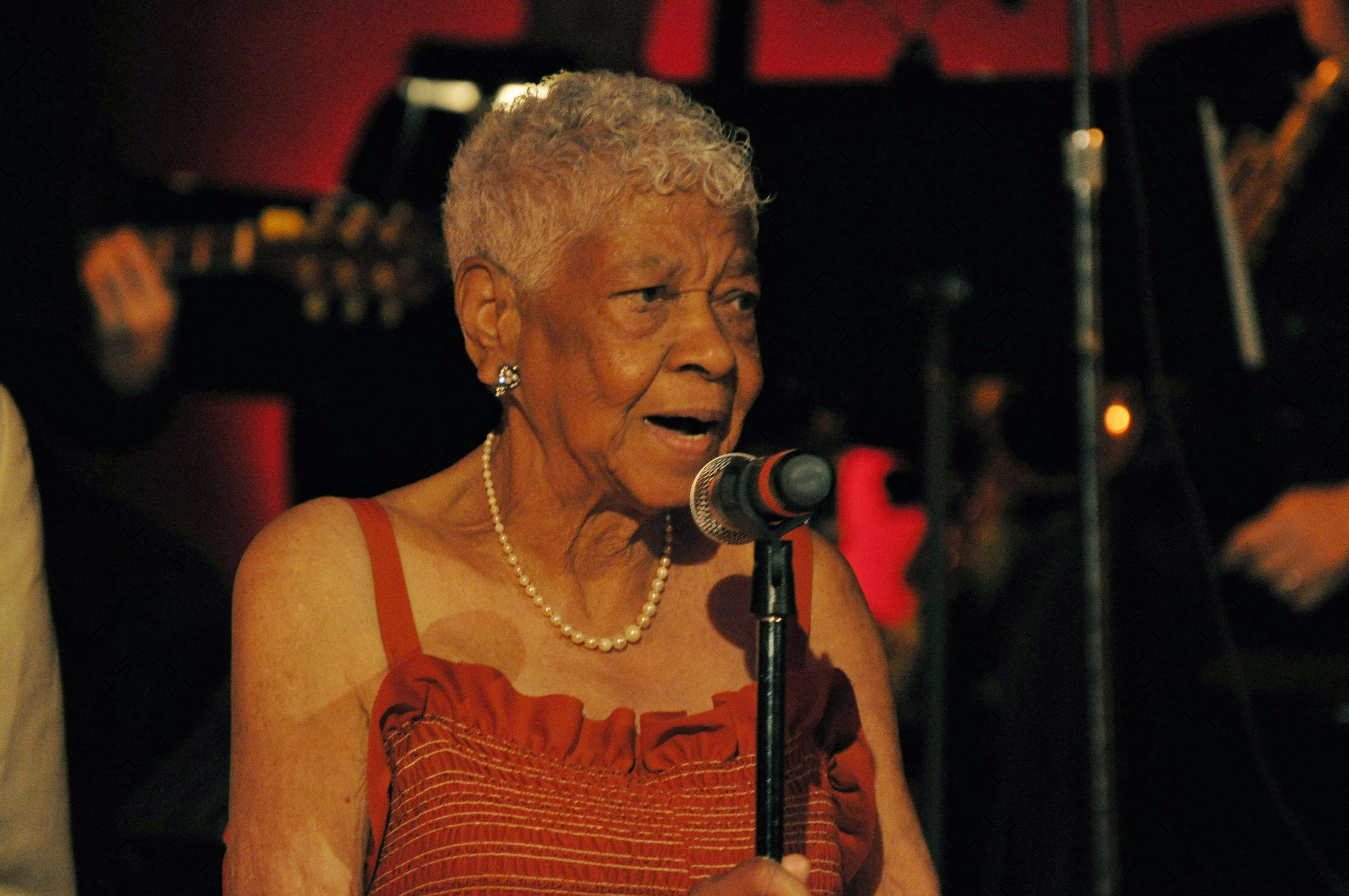 Dancer Jeni LeGon appearing at Masters of Lindy Hop and Tap, Century Ballroom, Oddfellows Temple, Pine Street, Capitol Hill, Seattle, Washington, USA. See Jeni LeGon on the site of that event for more about LeGon.